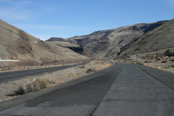 For use with the article on Umtanum Ridge Water Gap in Wikipedia. Taken by the uploader.